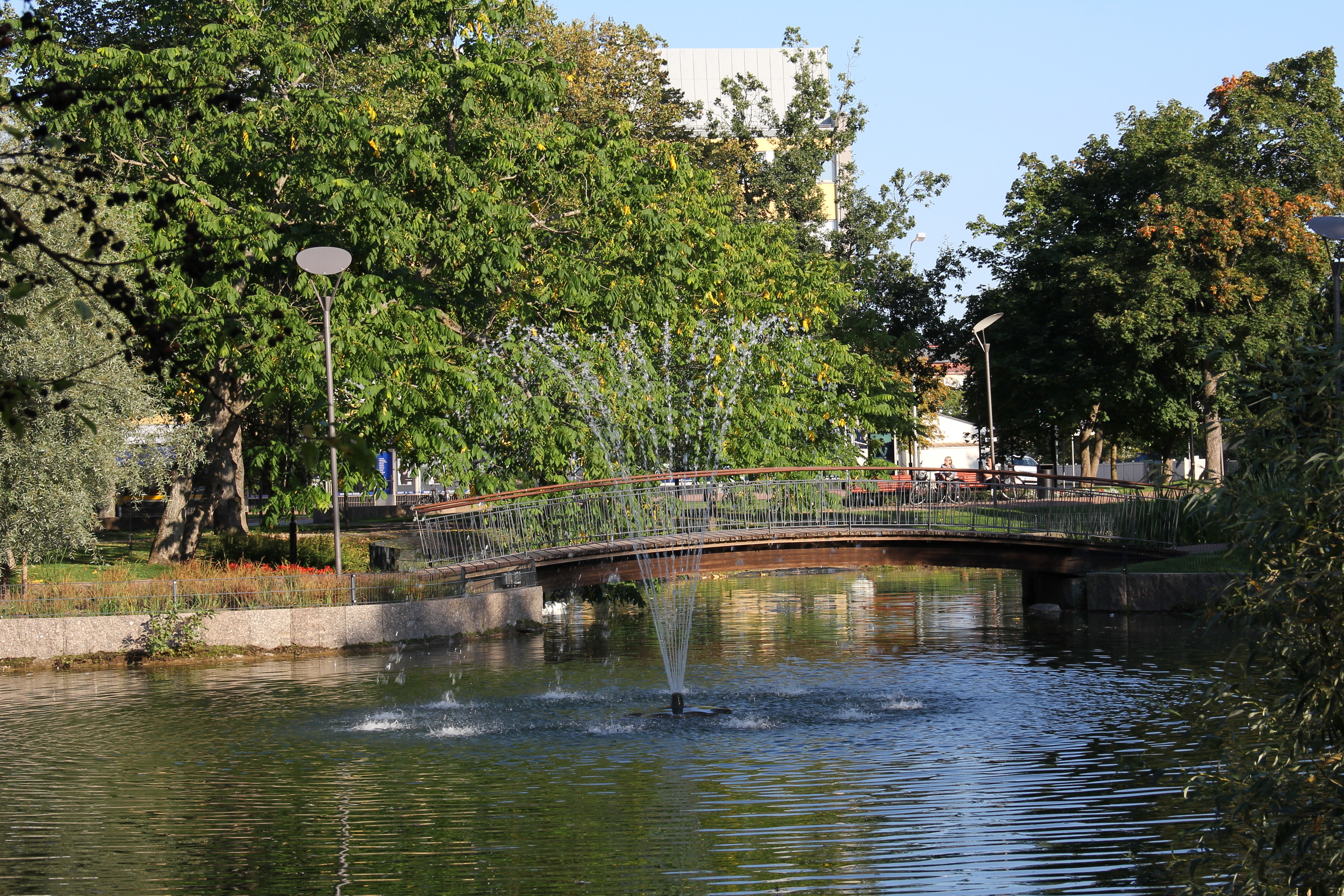 Ankkalammi park, Forssa, Finland. - bridge over the pond.